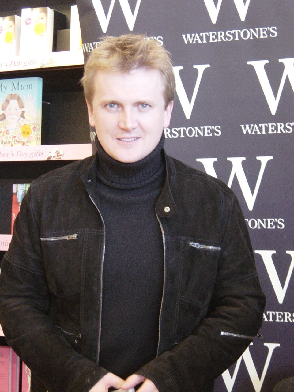 Aled Jones at a Waterstone's book signing